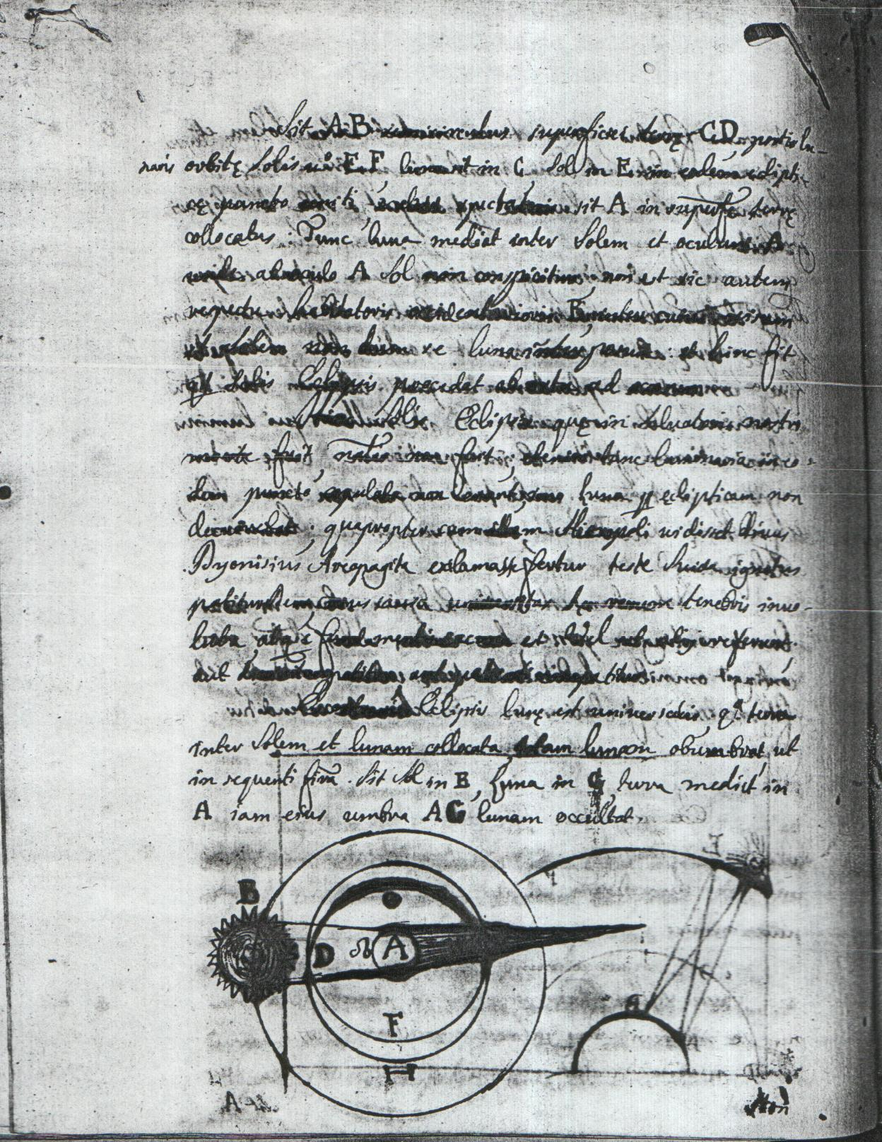 A page from Henry Regnand's manuscripts (c. 1709)